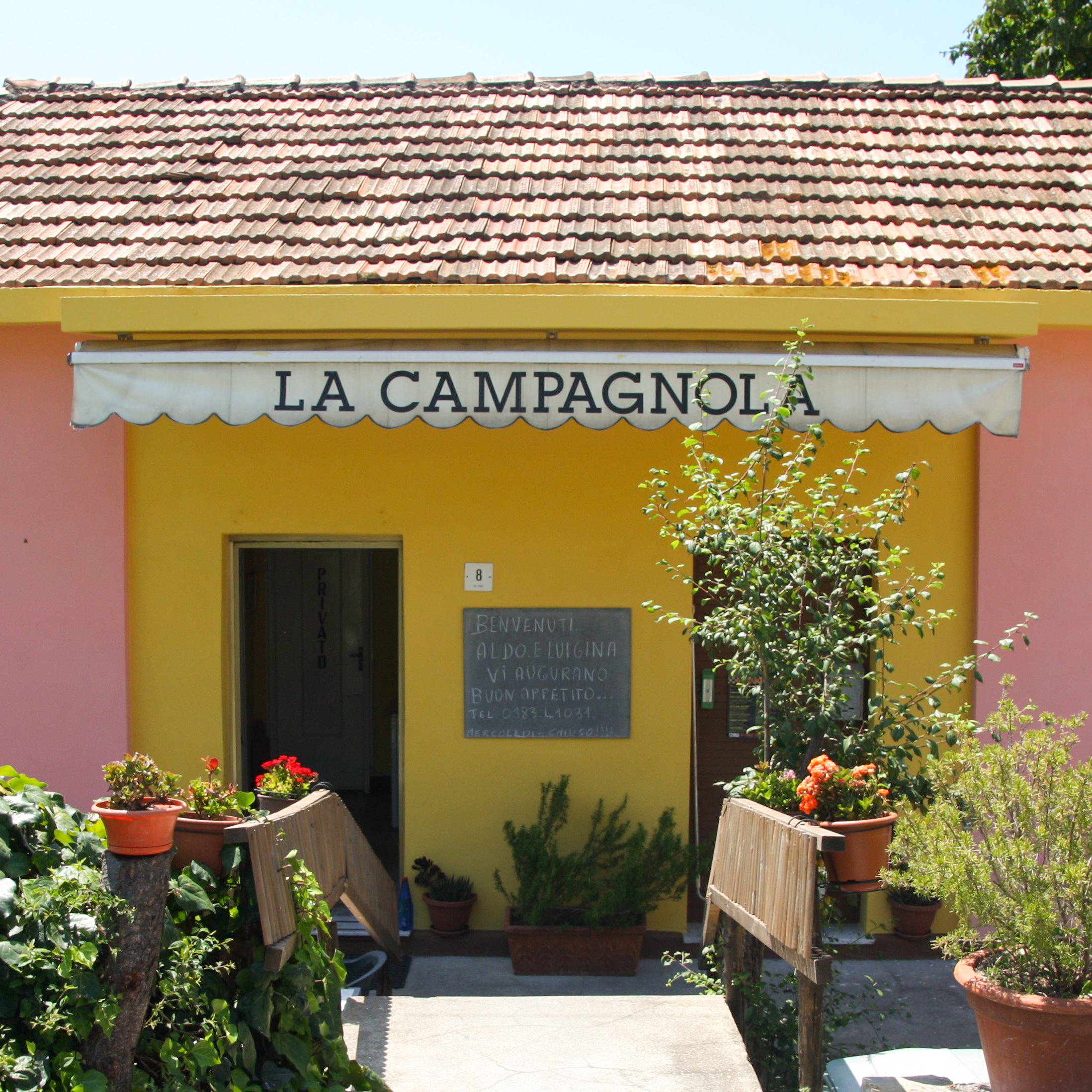 The entrance door and facade of the italian restaurant La Campagnola located in Tovo. Tovo Faraldi is part of the municipality of Villa Faraldi, in the province of Imperia, region Liguria, in Italy. Picture taken on the 19th of July in 2016. 2016-07-19